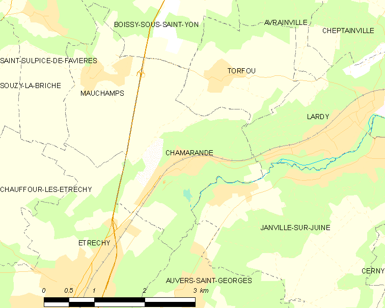 Map of French municipality Chamarande